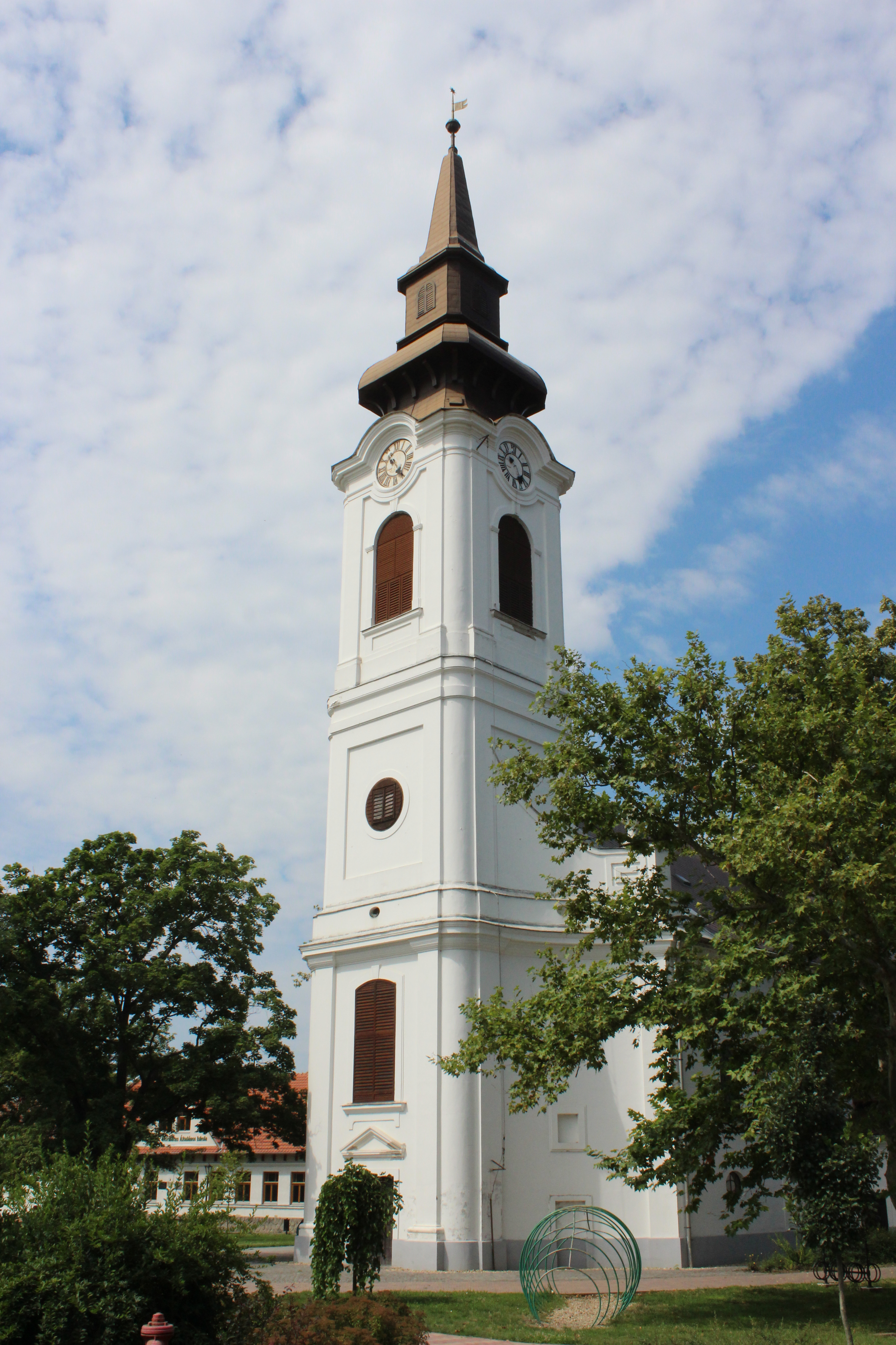 The reformed church (Vésztő, Hungary).